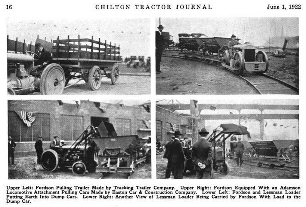 An article in the Chilton Tractor Journal covering a trade show at which Fordson industrial models were featured.